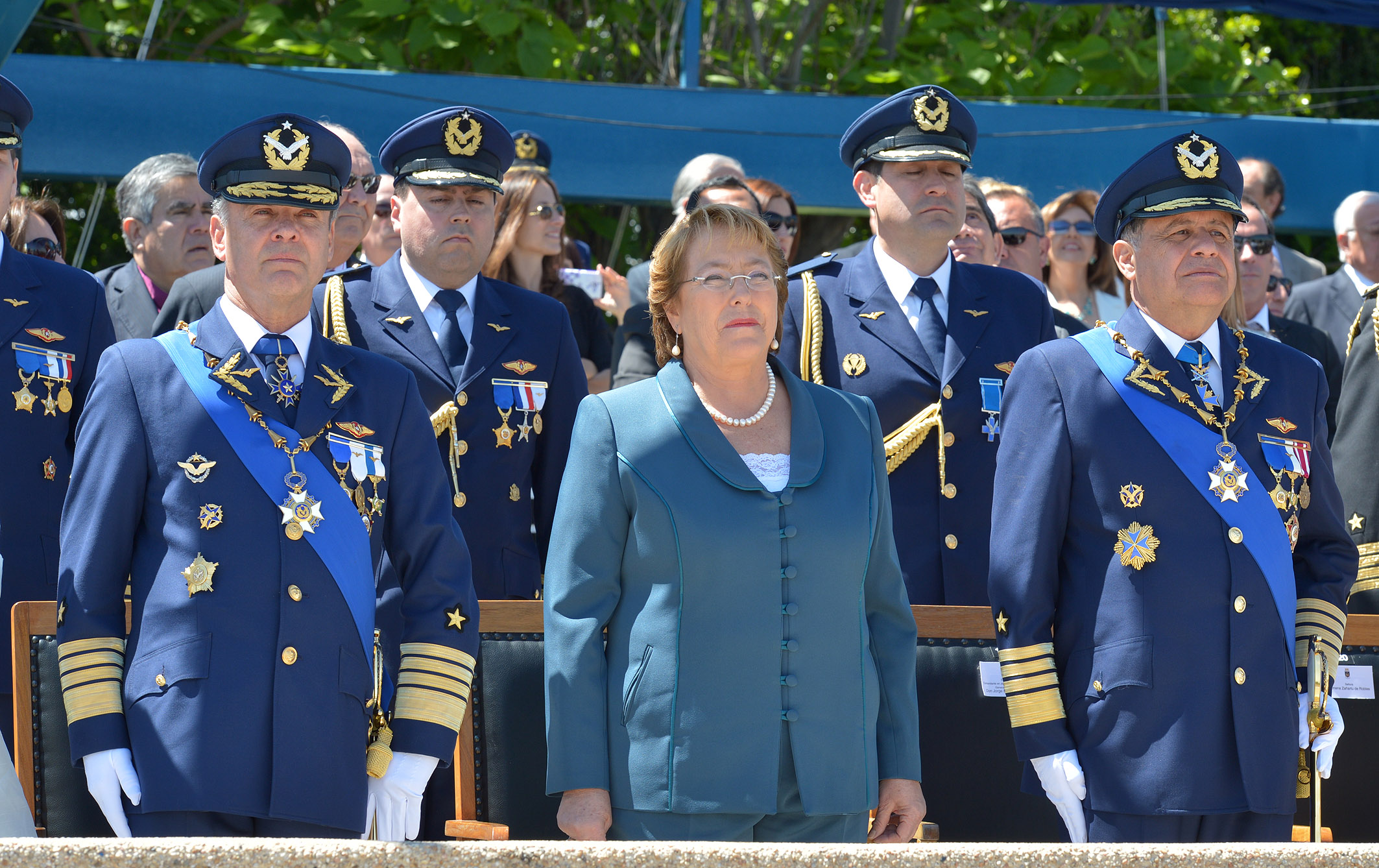 Michelle Bachelet, the President of Chile, attends the ceremony of change of command of the Commander in Chief of the Chilean Air Force. Shown flanking President Bachelet are Generals of Aviation Jorge Rojas Ávila and Jorge Robles Mella.